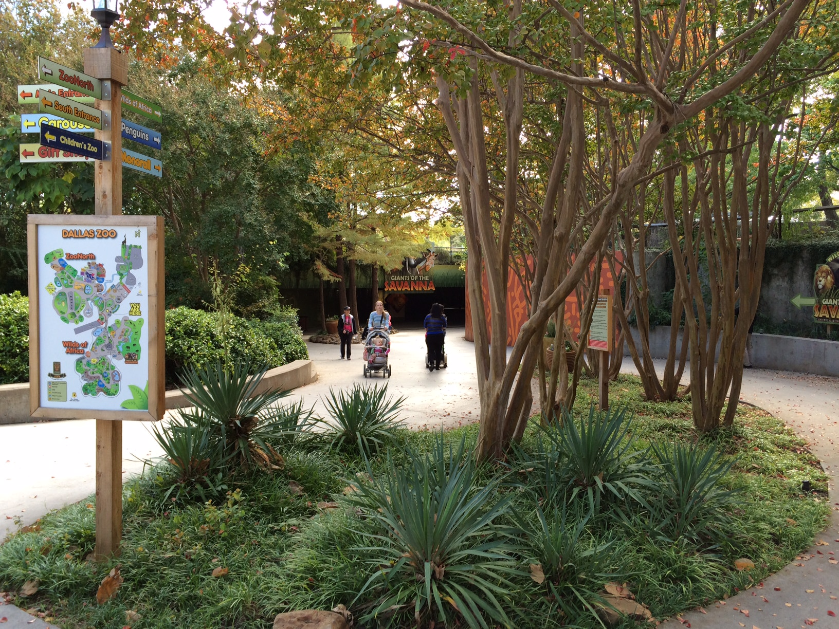 Tunnel to Giants of the Savanna